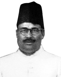 Provided by grandson ( Altaf Ul Haque)of Sir Azizul Haque, Santipur , Nadia , West Bengal.